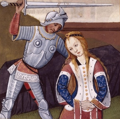 Death of Polyxena, daughter of Priam and Hecuba.